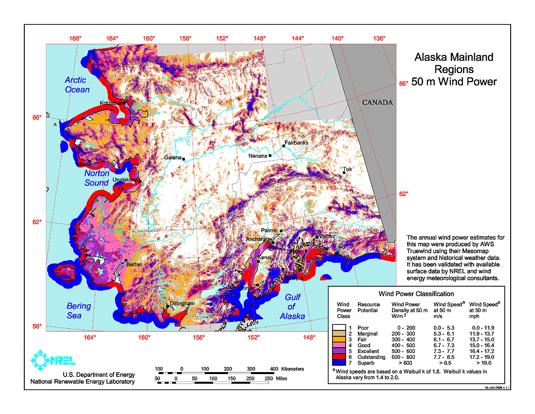 Average annual wind power distribution for Alaska (mainland regions), 50m height above ground, also showing location of existing electrical transmission lines